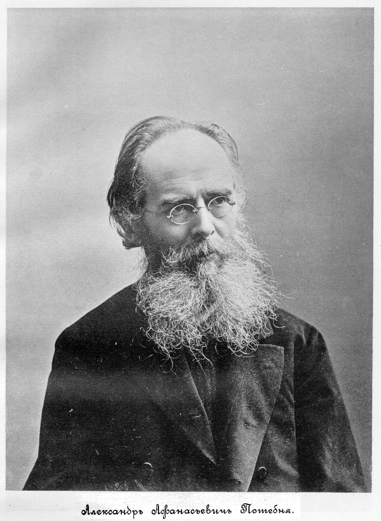 Alexander Potebnya